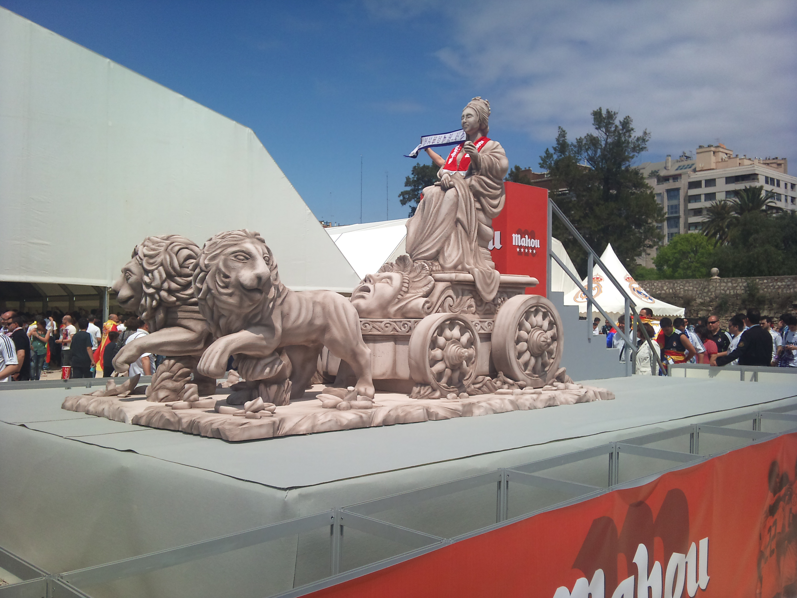 Real Madrid's Fan Zone in València. Copy of the Cybele's fountain.